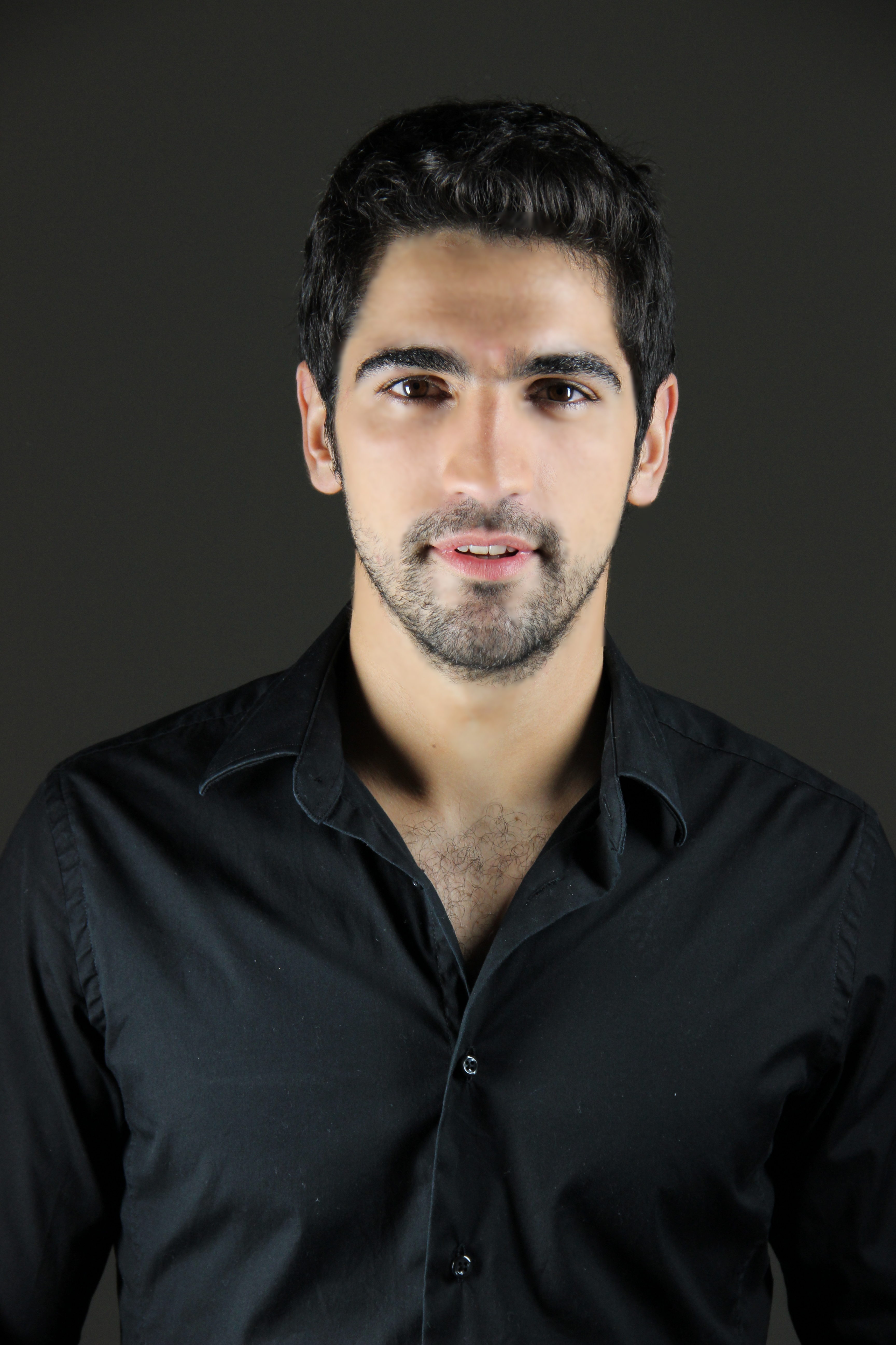 Image from the "book" of Argentine actor Pablo Scorcelli. This is a "head shot", provided by actors when petitioning for acting parts. Their "book" is the set of images provided to the potential employer. This is a particularly good one at the Commons, as almost all professional head shots are under copyright with the actor. This one was released by the actor himself.